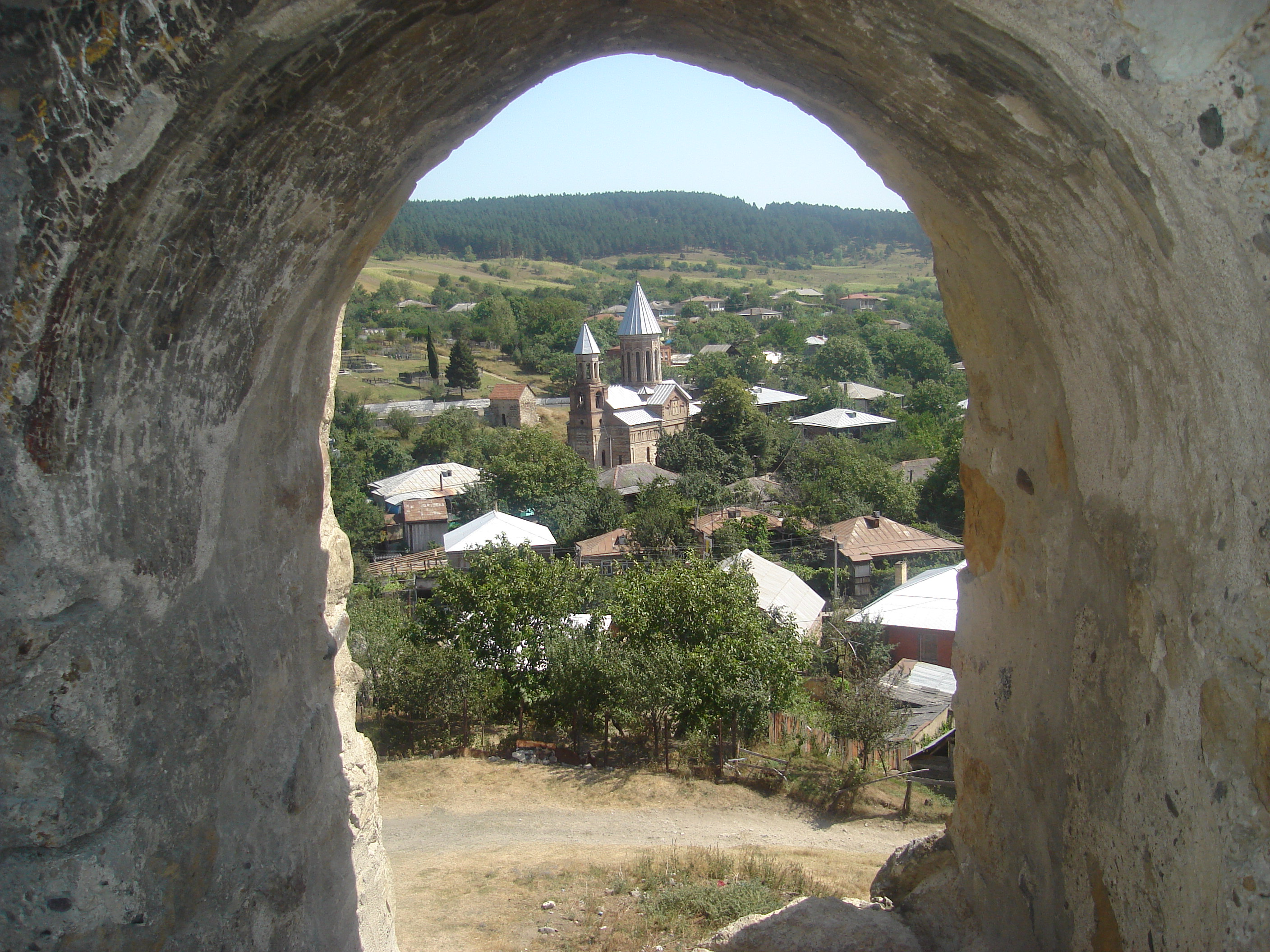 The town of Surami in western Georgia. View from the medieval Surami Fortress.